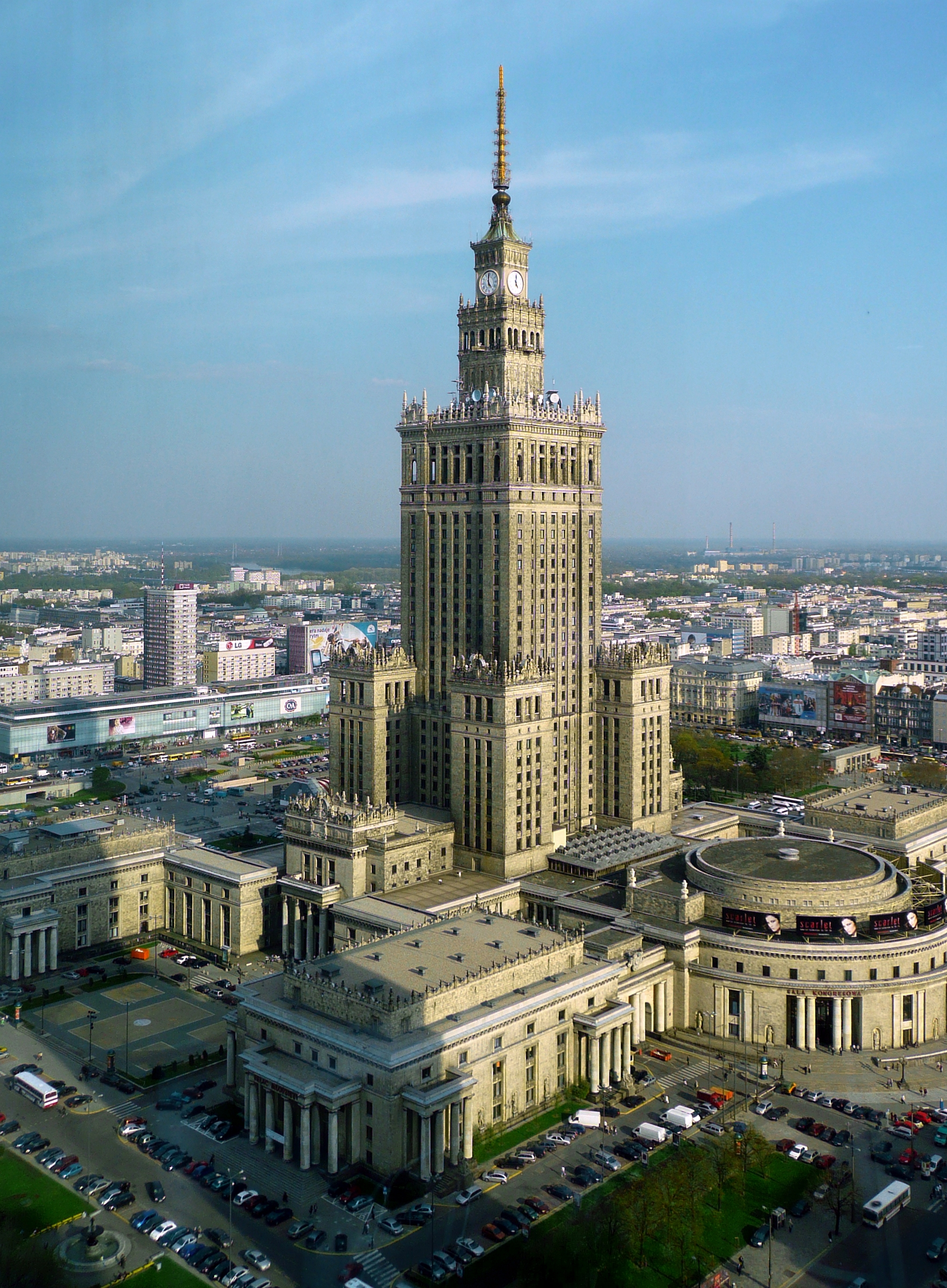 Palace of Culture and Science in Warsaw. View from Warsaw Financial Center.